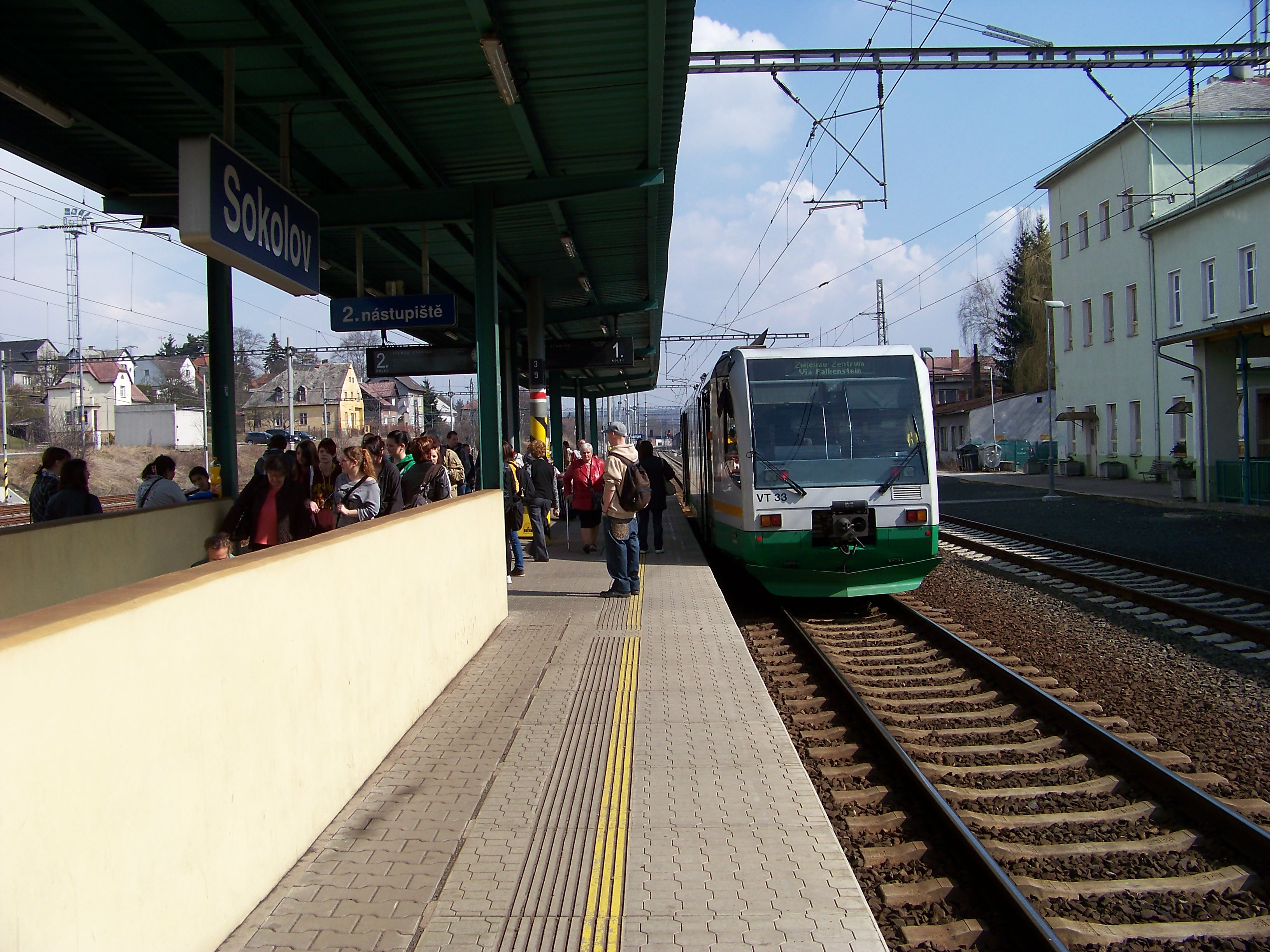 Sokolov, Sokolov District, Karlovy Vary Region, the Czech Republic. A train station, a train of Vogtlandbahn. Camera location 50.186° 11.16′ 9.6000000000058.60″ N, 12.643722222222° 38.623333333333′ 37.400000000001.40″ E This and other images at their locations on: Google Maps - Google Earth - OpenStreetMap(Info)